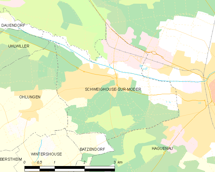 Map of French municipality